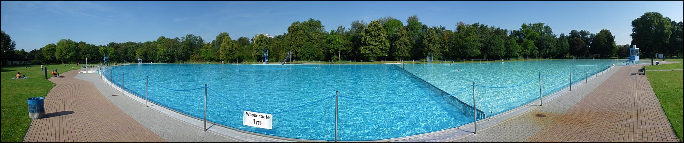 The pool of the Brentanobad Lido in Frankfurt am Main, Germany.